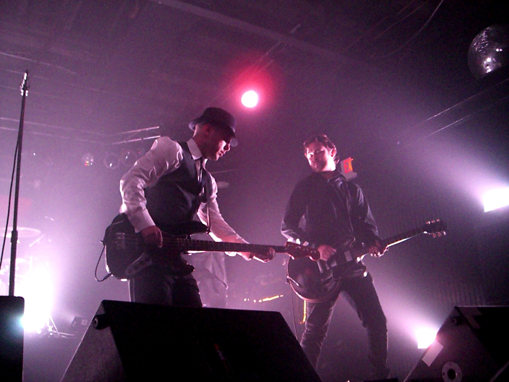 She Wants Revenge Live in Orlando FL.